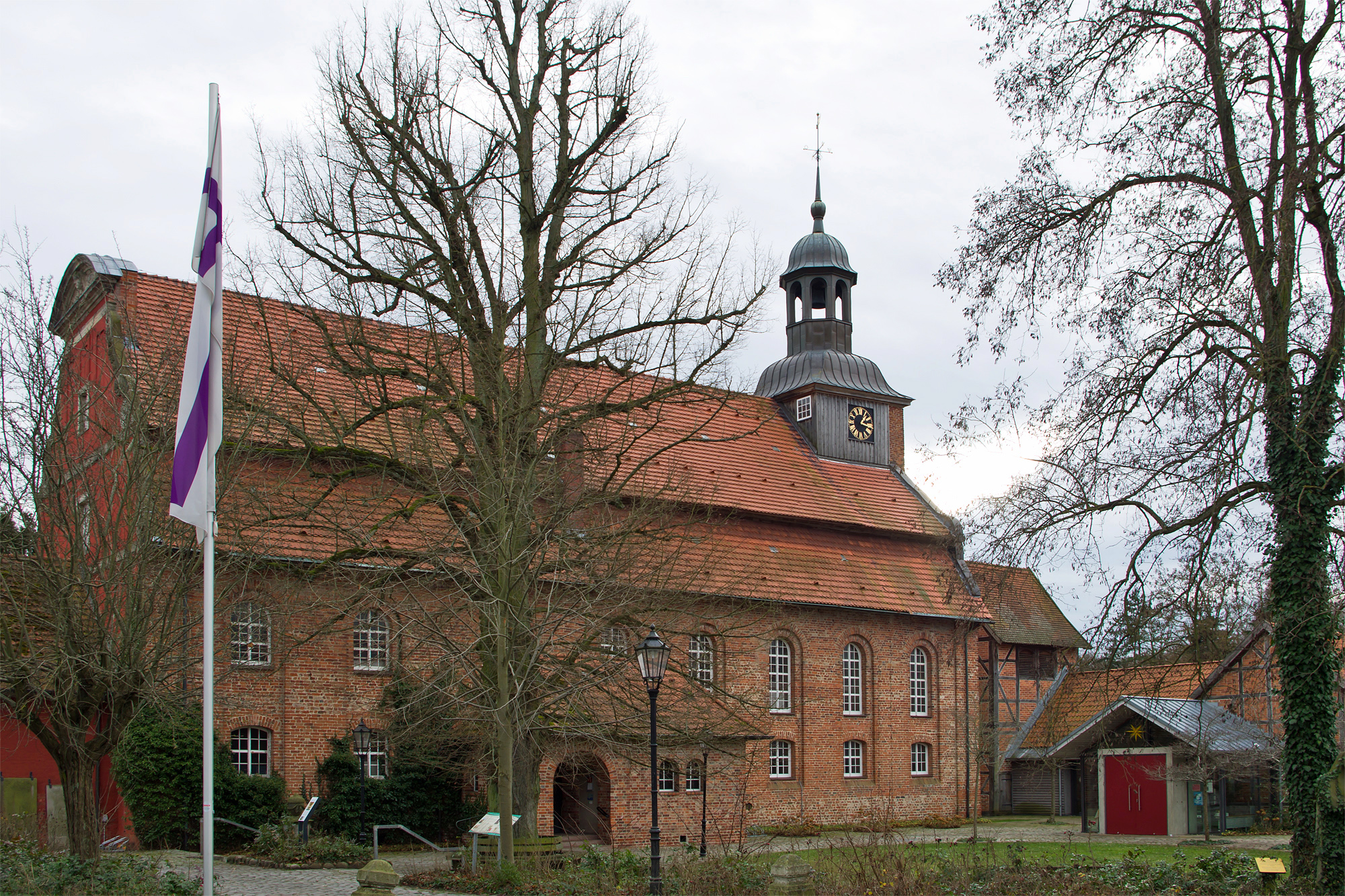 Church of the village Gartow (district Lüchow-Dannenberg, northern Germany).